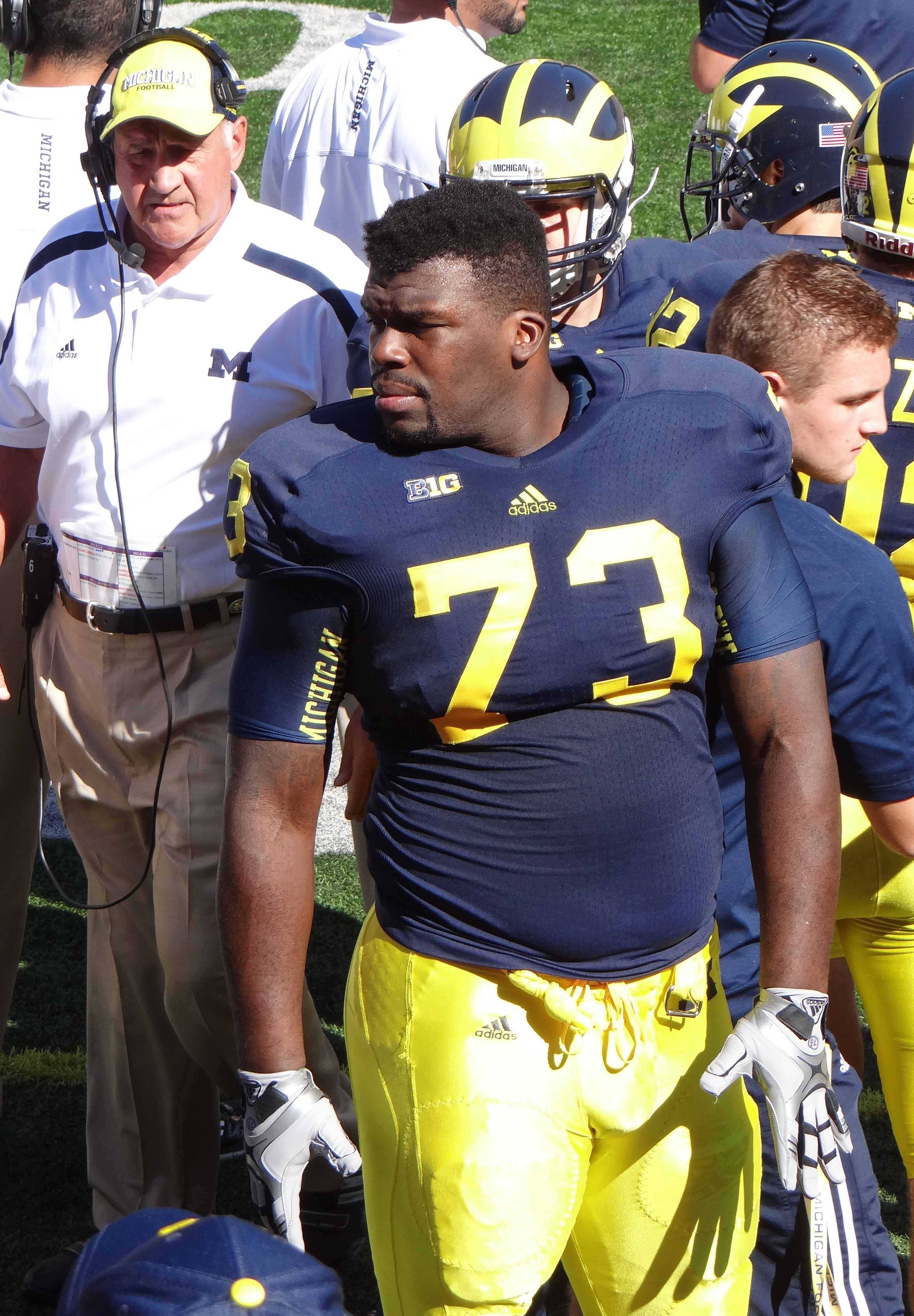 Michigan defensive tackle Will Campbell with defensive coordinator Greg Mattison